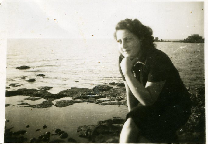 Hannah Senesh